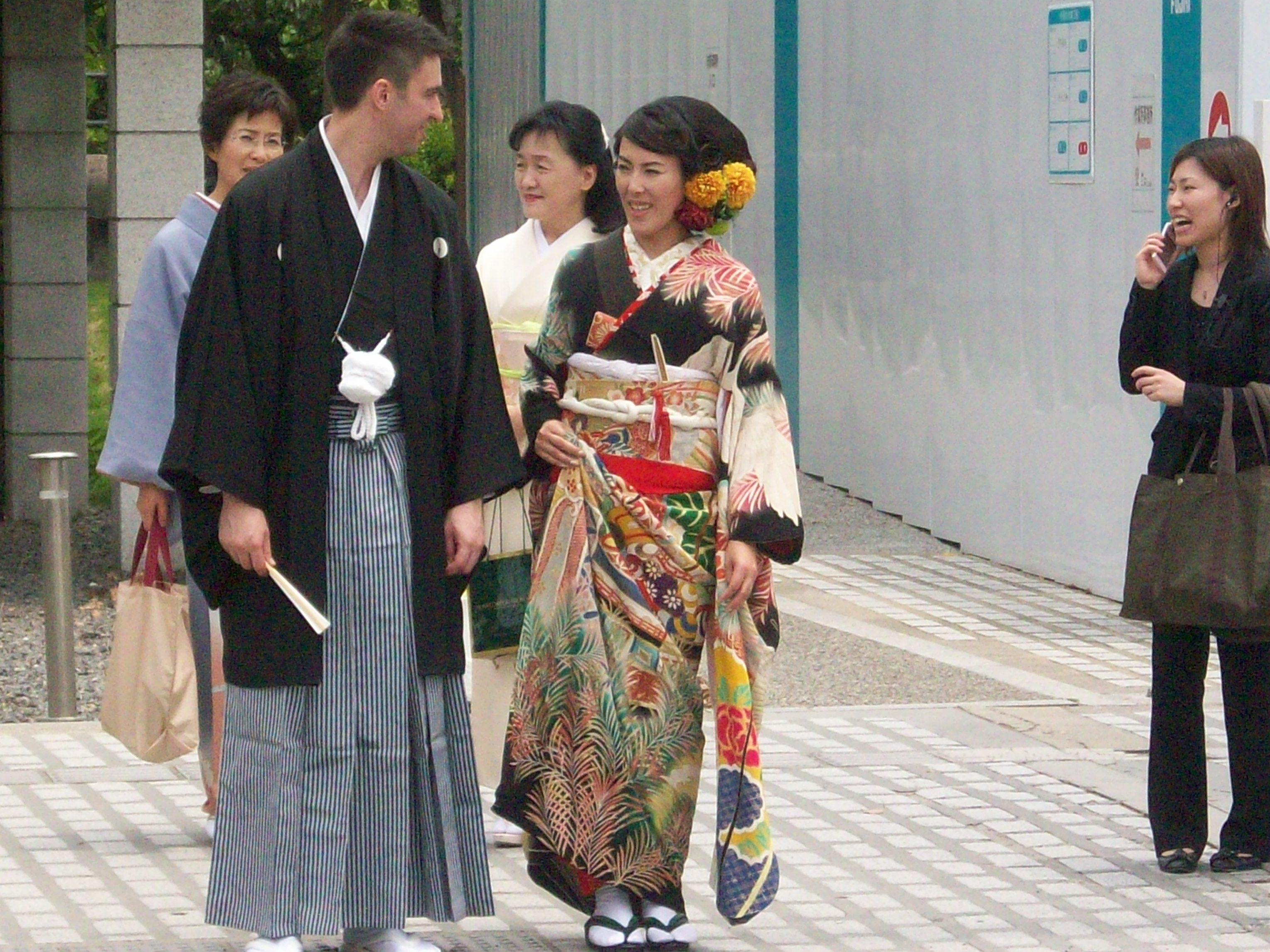 Wedding Kimonos- after a wedding ceremony in Bikan district, Kurshiki, Japan.